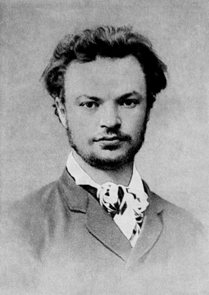 Russian writer and publisher Sergey Stepniak as a young man